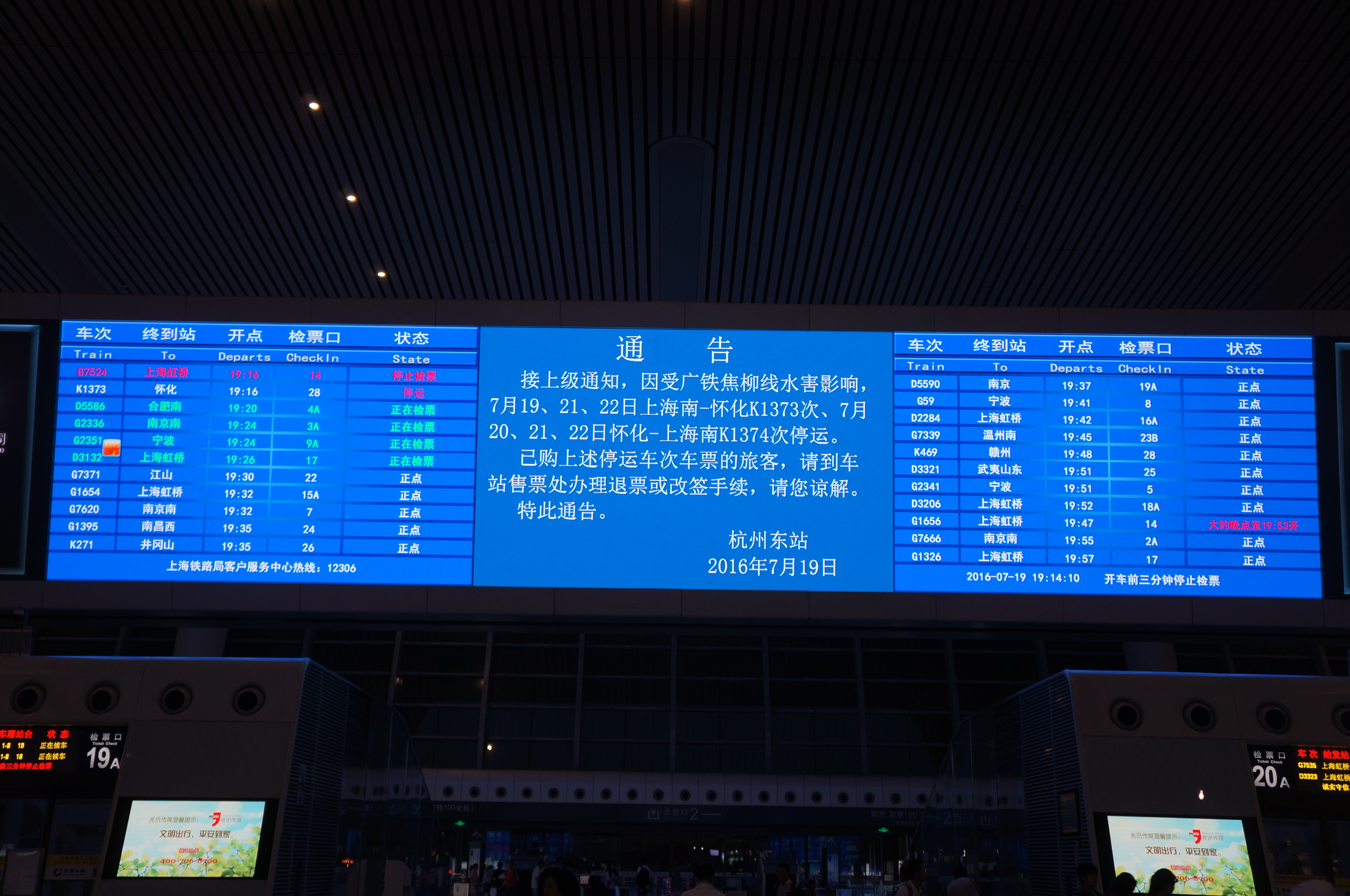 201607 HGH Displays with Noticement